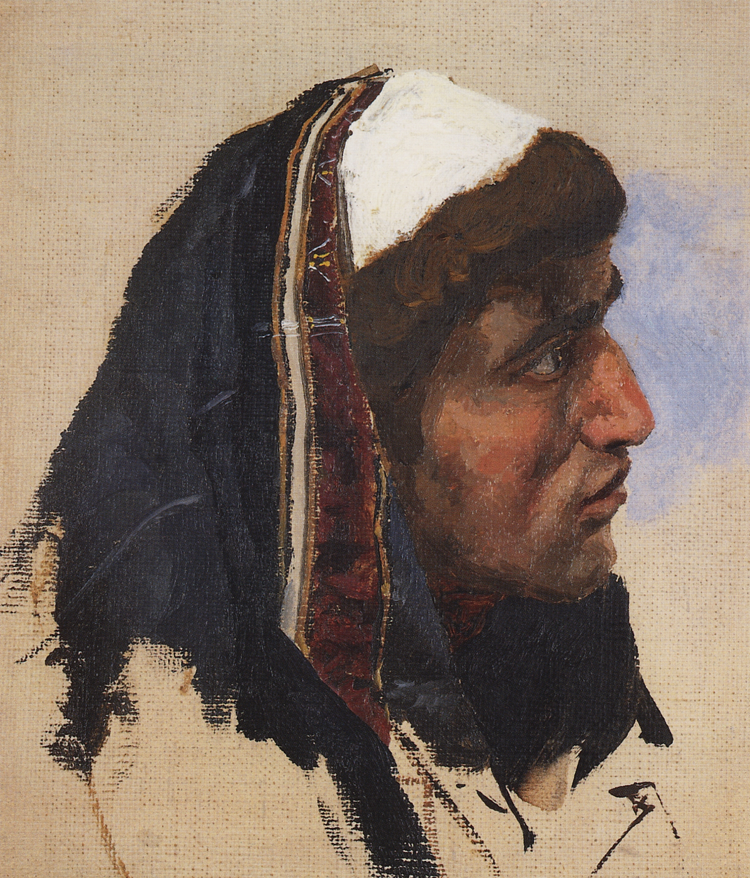 (study by Vasily Polenov for the 1888 painting "Christ and the woman taken in adultery")